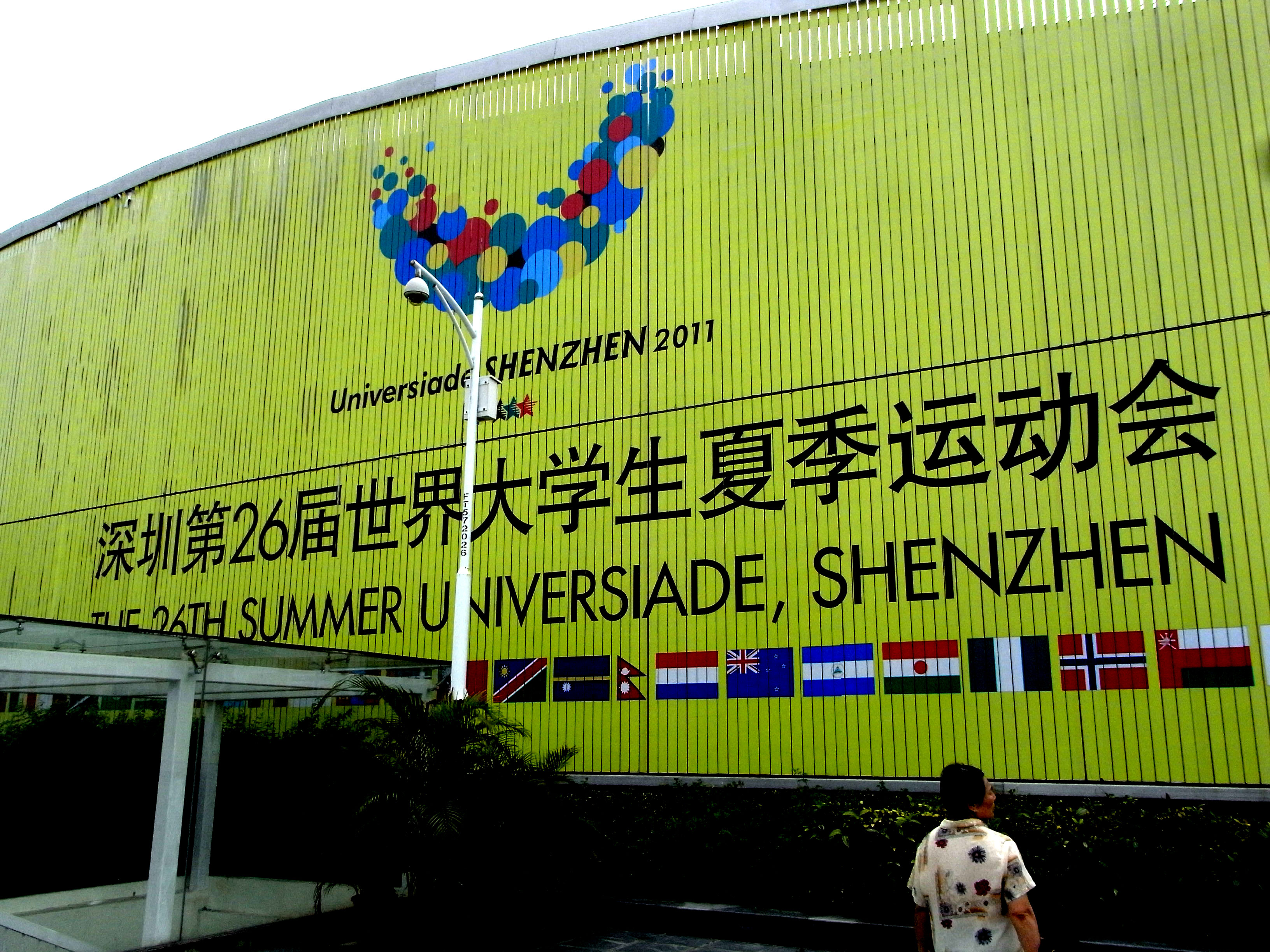 深圳福田區 深圳國際園林花卉博覽園